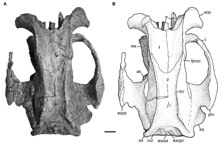 Fig. 2: Cranium of Lentiarenium cristolii (Fitzinger, 1842) (OLL 1926/394) in dorsal view. A. Photograph. B. Drawing. White areas indicate either missing or reconstructed parts. Scale bar = 2 cm. as: alisphenoid; e: ethmoid; exocr: external occipital crest; exopr: external occipital protuberance; f: frontal; fproc: frontal process; j: jugal; mx: maxilla; ncr: nuchal crest; p: parietal; prv: processus retroversus; so: supraoccipital; sop: supraorbital process; sq: squamosal; sqzp: zygomatic process of squamosal; tcr: temporal crest